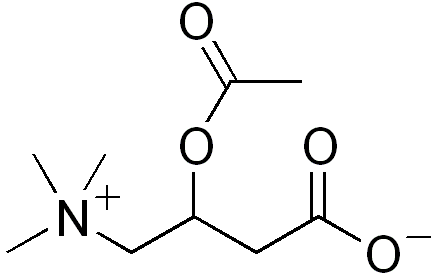 chemical structure of acetylcarnitine